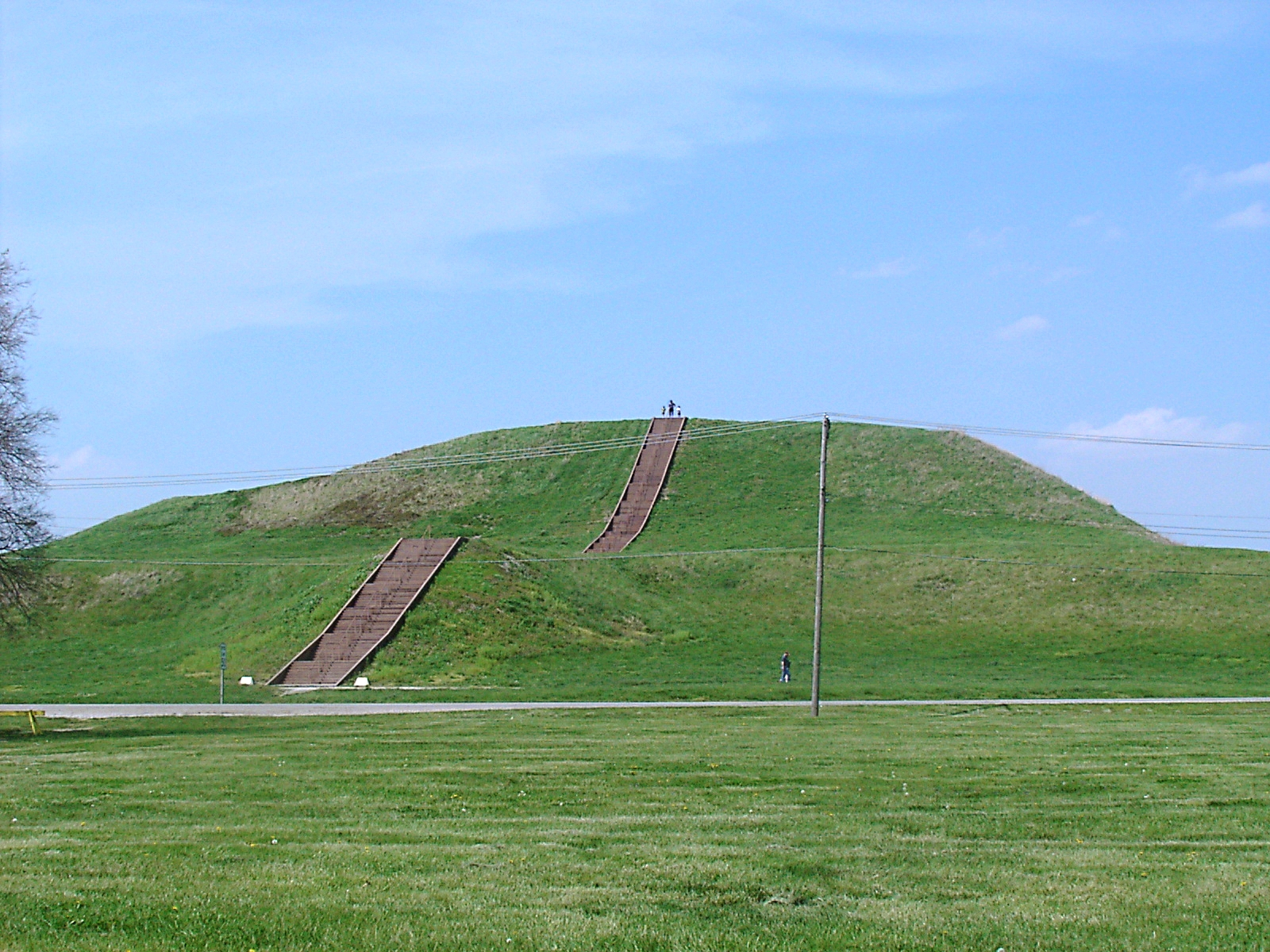 Monk's Mound a Pre-Columbian Mississippian culture earthwork, located at the Cahokia site near Collinsville, Illinois. The concrete staircase is modern, but it is built along the approximate course of the original wooden stairs.